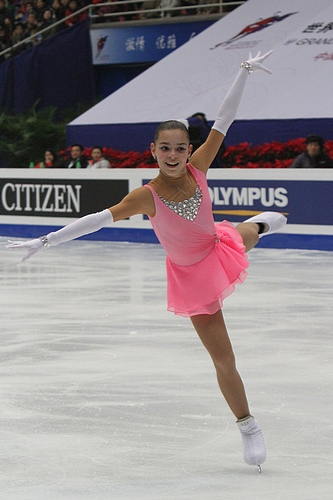 Adelina Sotniкova at the Junior Grand Prix Final 2010